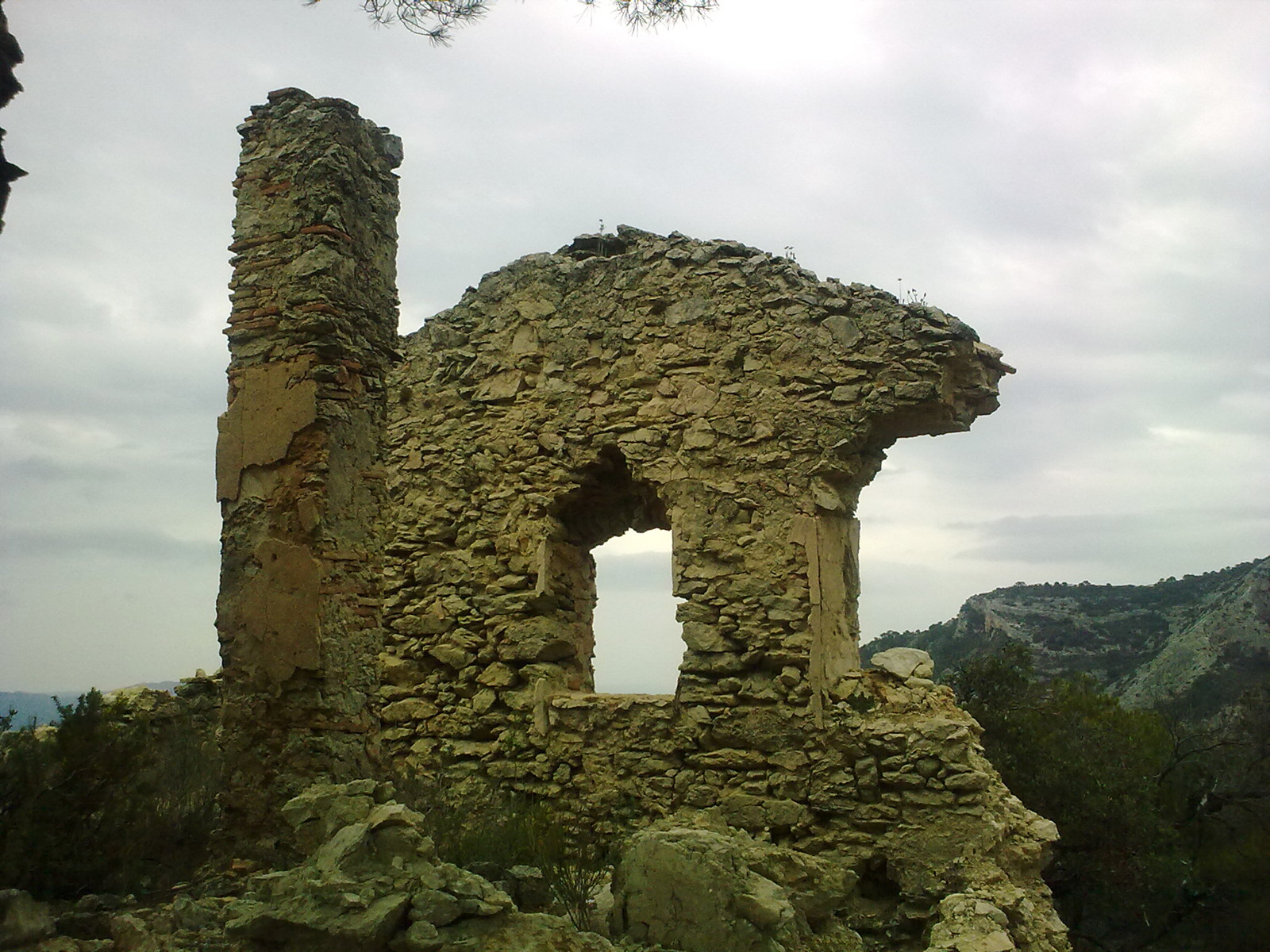 Church in Tarragona. Catalonia.